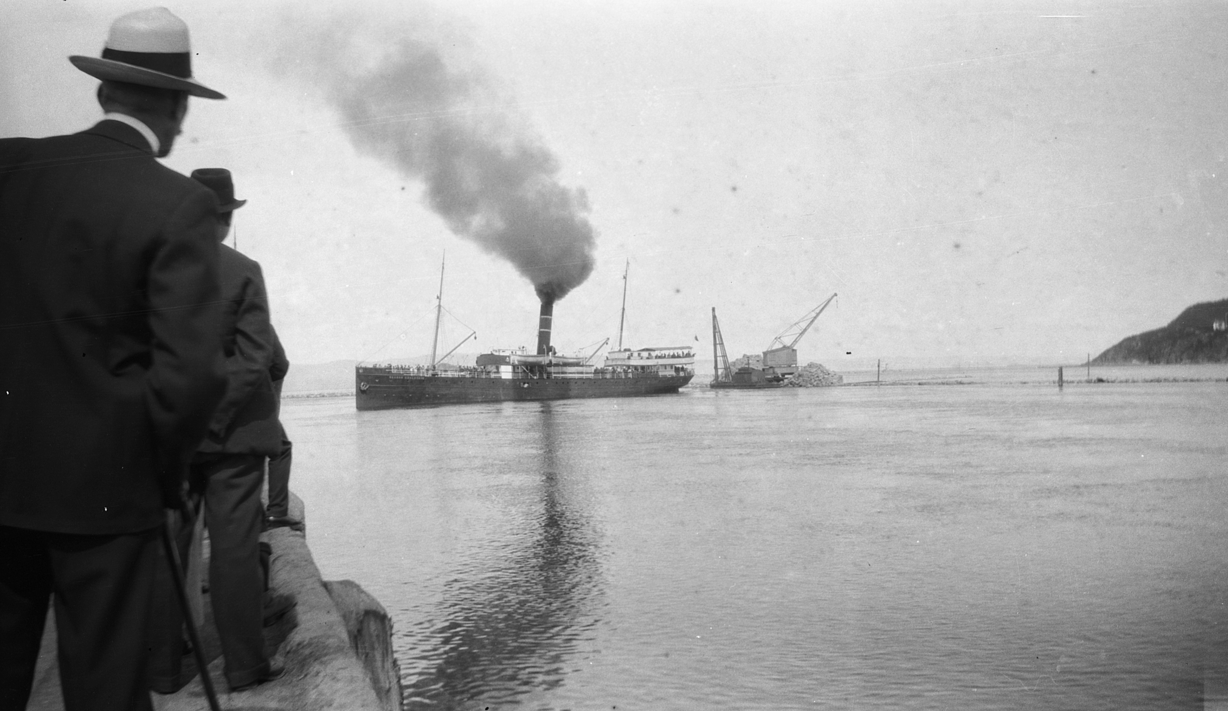 Kaien i Tronhjem. / SS Haakon Adalstein at Trondheim harbour, 1922. Identifier: SFFf-100585.274867 Photographer: Kristian Berge. Medium: Cellulose nitrate negative. Extent: 7 x 12 cm. Original caption (from Berge's negative album): Kaien i Tronhjem.